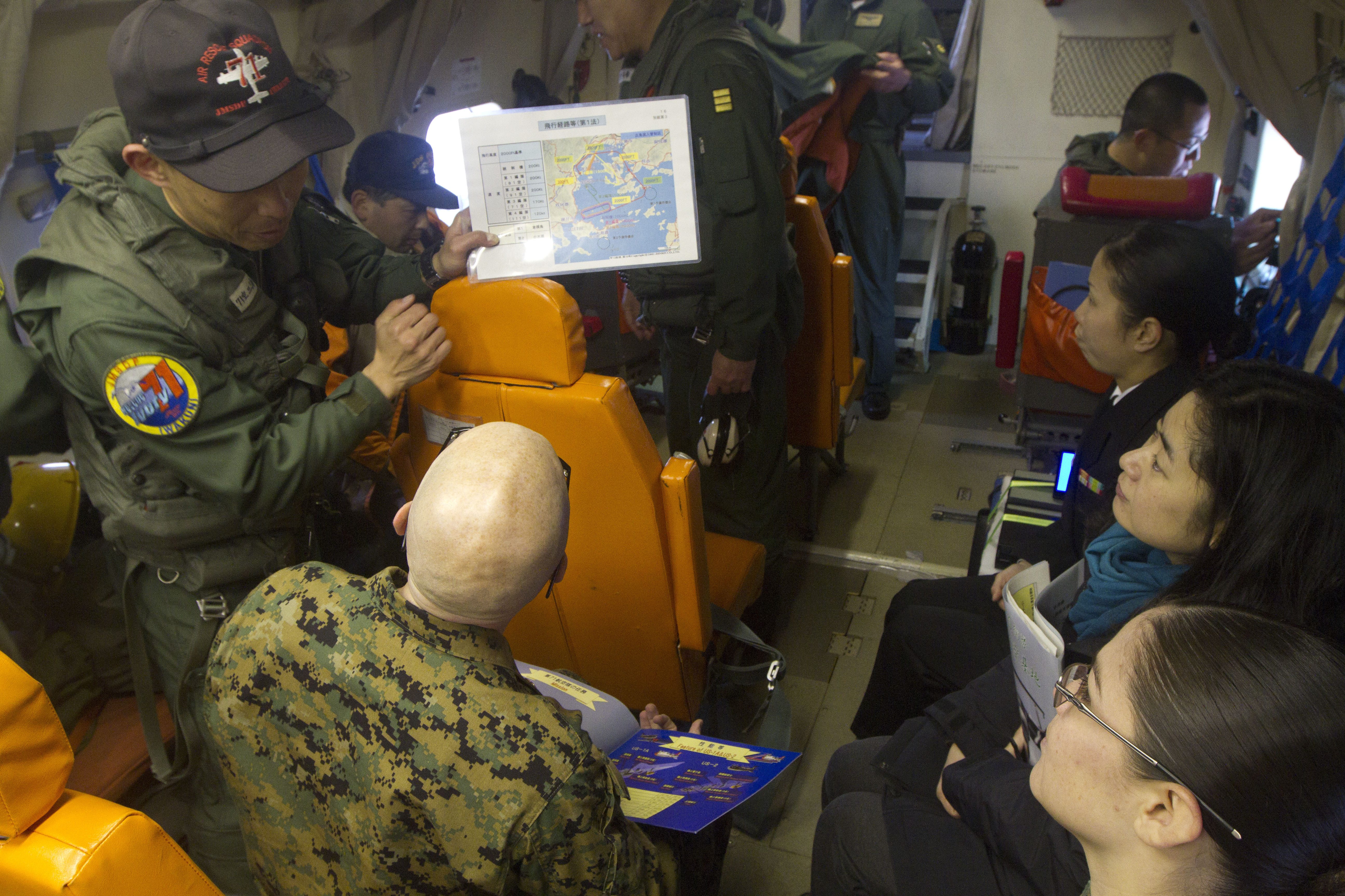 A Japanese Maritime Self Defense Force (JMSDF) service member, left, explains to Public Affairs Marines Maj. Neil A. Ruggiero, left, and Cpl. Vanessa Jimenez, the flight plan prior to conducting a search and rescue exercise at Marine Corps Air Station Iwakuni, Japan, Jan. 8, 2013. JMSDF conducted the search and rescue scenario to mark the US-1A's first flight of the year. (U.S. Marine Corps photo by Lance Cpl. Todd F. Michalek/Released)